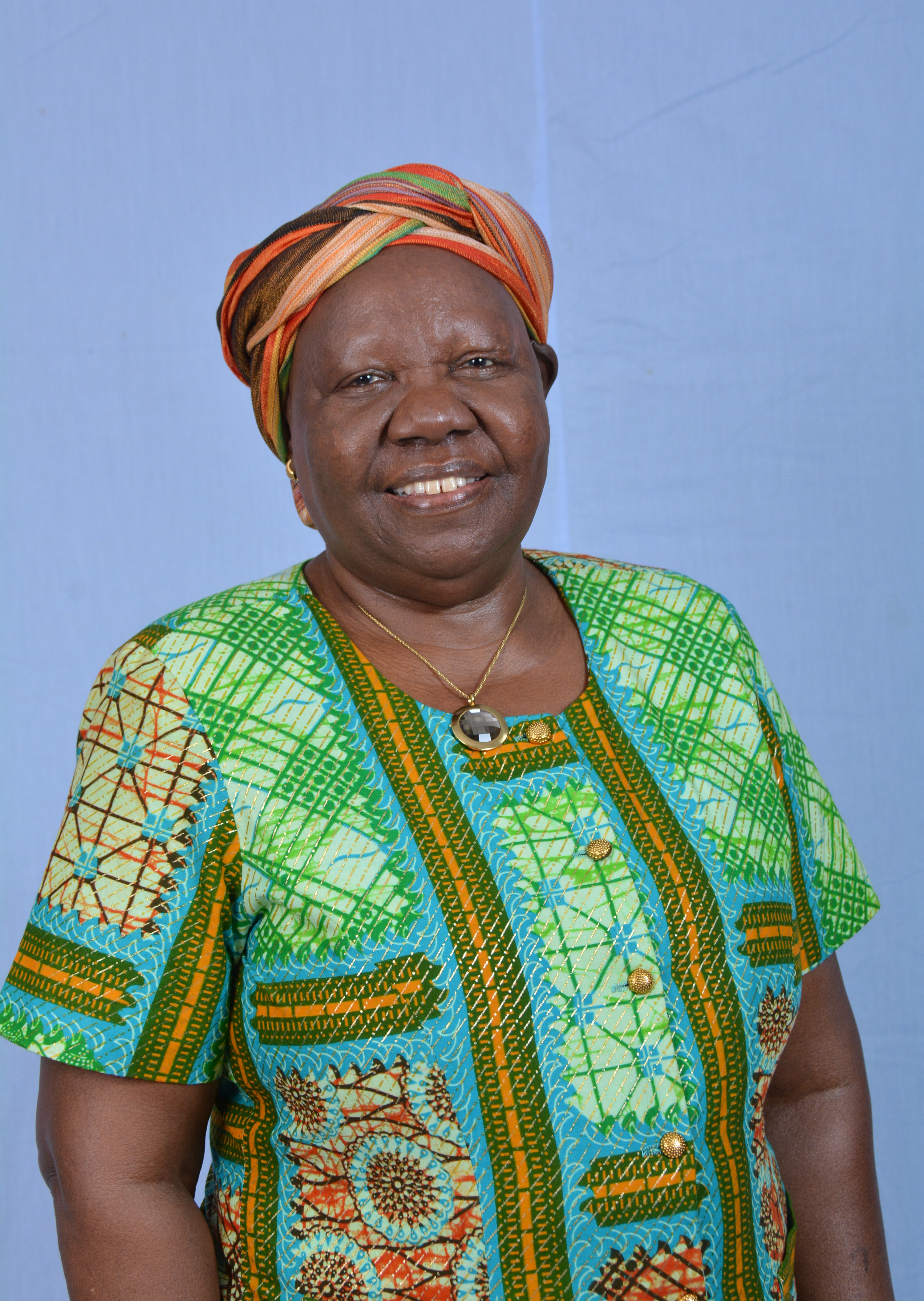 Voice, Power and Soul - Portraits of African Feminists